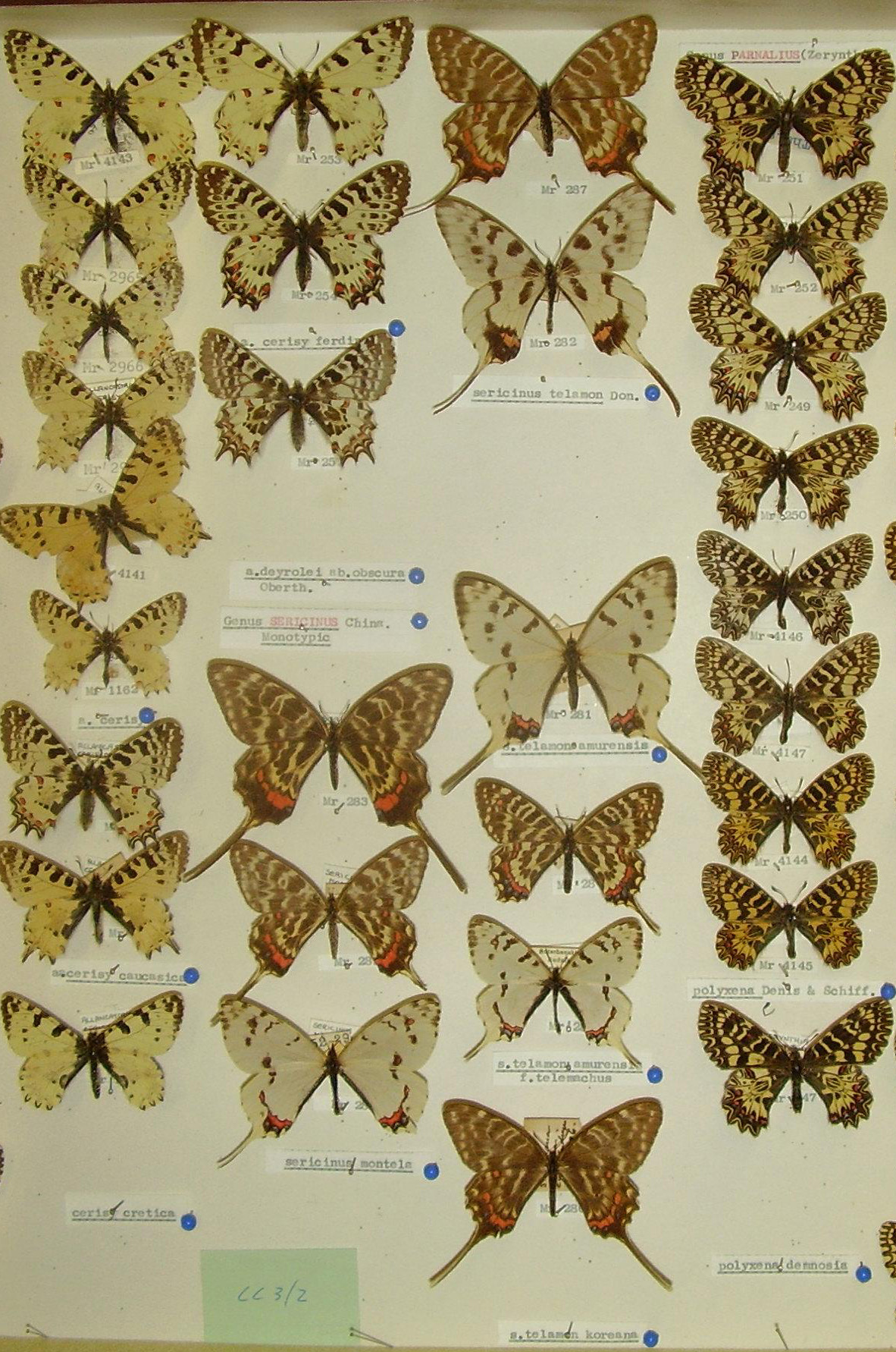 Museum specimens of Sericinus